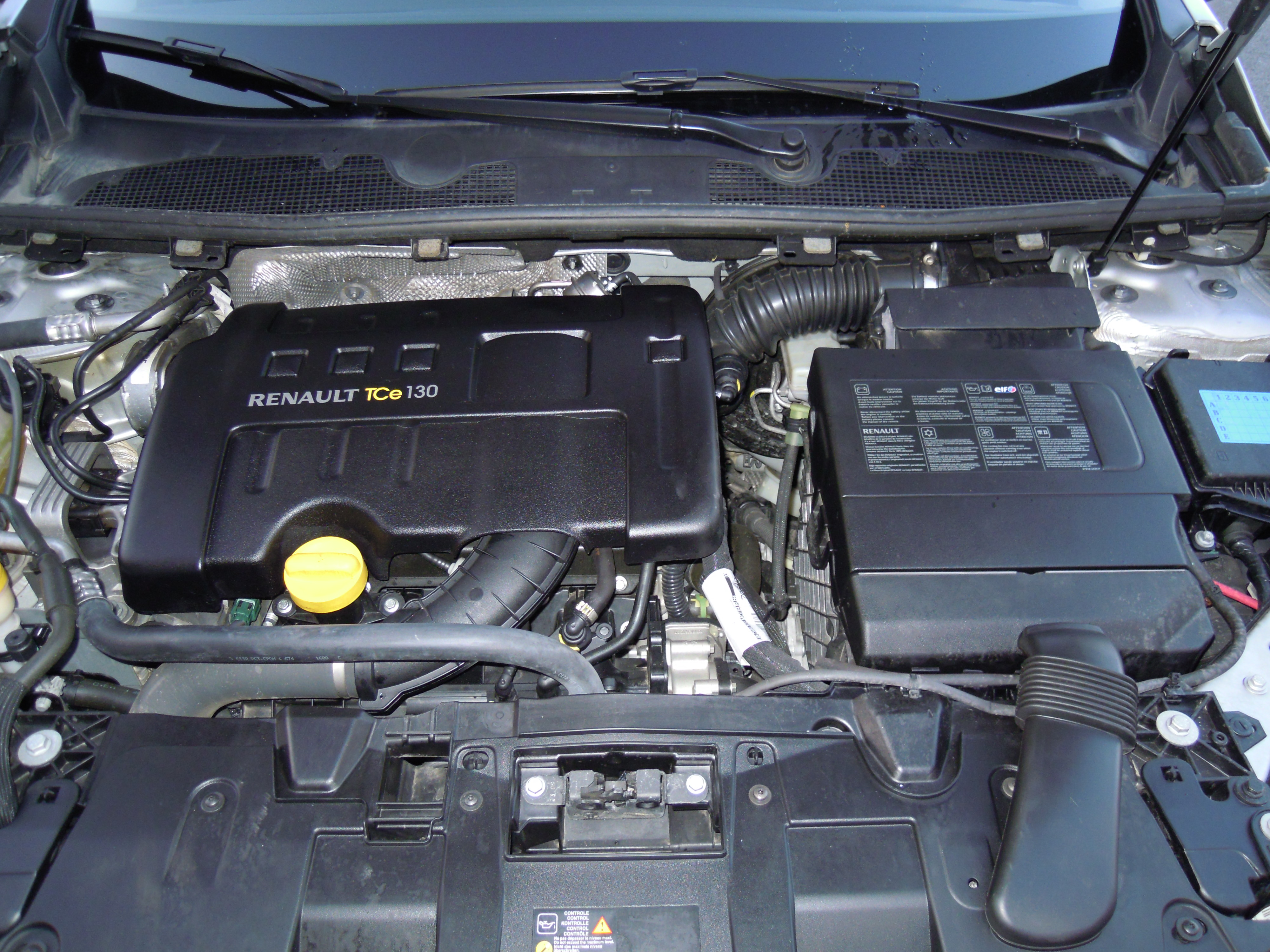 the 4 cilinders 1.4 liter turbocharged engine from a Renault Mègane III